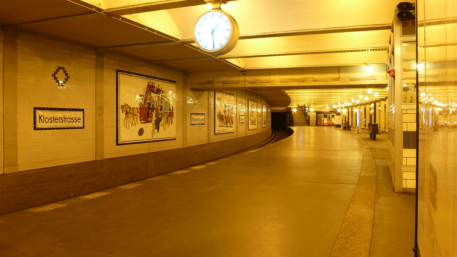 subway Klosterstr. Berlin